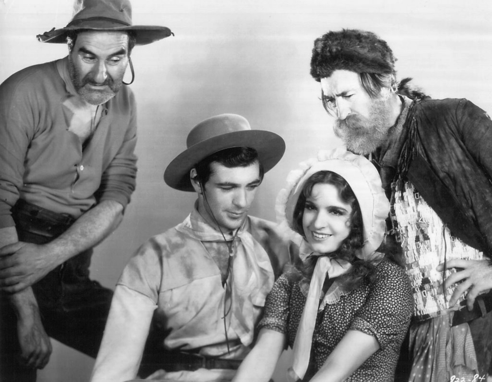 L. to R. : Ernest Torrence, Gary Cooper, Lili Damita, and Tully Marshall in Fighting Caravans (1931) - publicity still